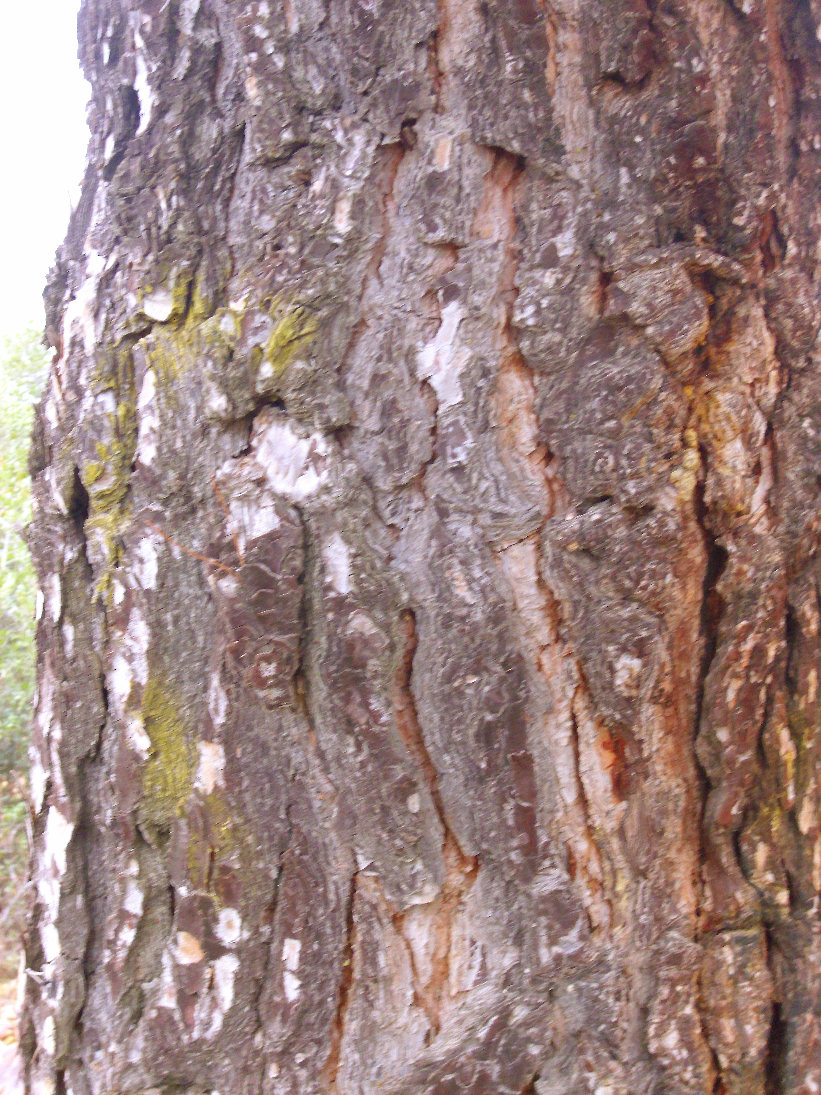 Pinus pinea trunk, Dehesa Boyal de Puertollano, Spain